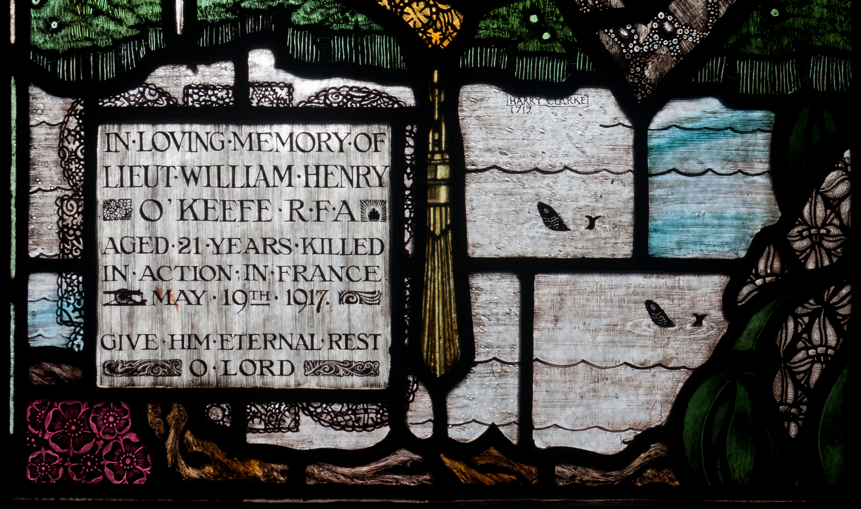 Detail of the right light of the stained glass window titled The Madonna with Sts Aidan and Adrian by Harry Clarke (1889–1931) with the dedication and his signature. The dedication reads: IN·LOVING·MEMORY·OF LIEUT·WILLIAM·HENRY O'KEEFE·R·F·A AGED·21·YEARS·KILLED IN·ACTION·IN·FRANCE MAY·19TH·1917 GIVE·HIM·ETERNAL·REST O·LORD This window was commissioned by Mrs O'Keefe in memory of her son Lt William Henry O'Keefe who had been killed in the Battle of Arras in 1917. It was completed in May 1919. (See Lucy Costigan and Michael Cullen: strangest genius: The Stained Glass of Harry Clarke, ISBN 978-1-84588-971-5, p. 245.) Harry Clarke (1889–1931) Alternative names Henry Patrick ClarkeDescriptionBritish artistDate of birth/death 17 March 1889 6 January 1931 Location of birth/death Dublin ChurAuthority control : Q981851 VIAF: 64809213 ISNI: 0000 0000 7729 3084 ULAN: 500005071 LCCN: n80127749 NLA: 35207551 WorldCat creator QS:P170,Q981851